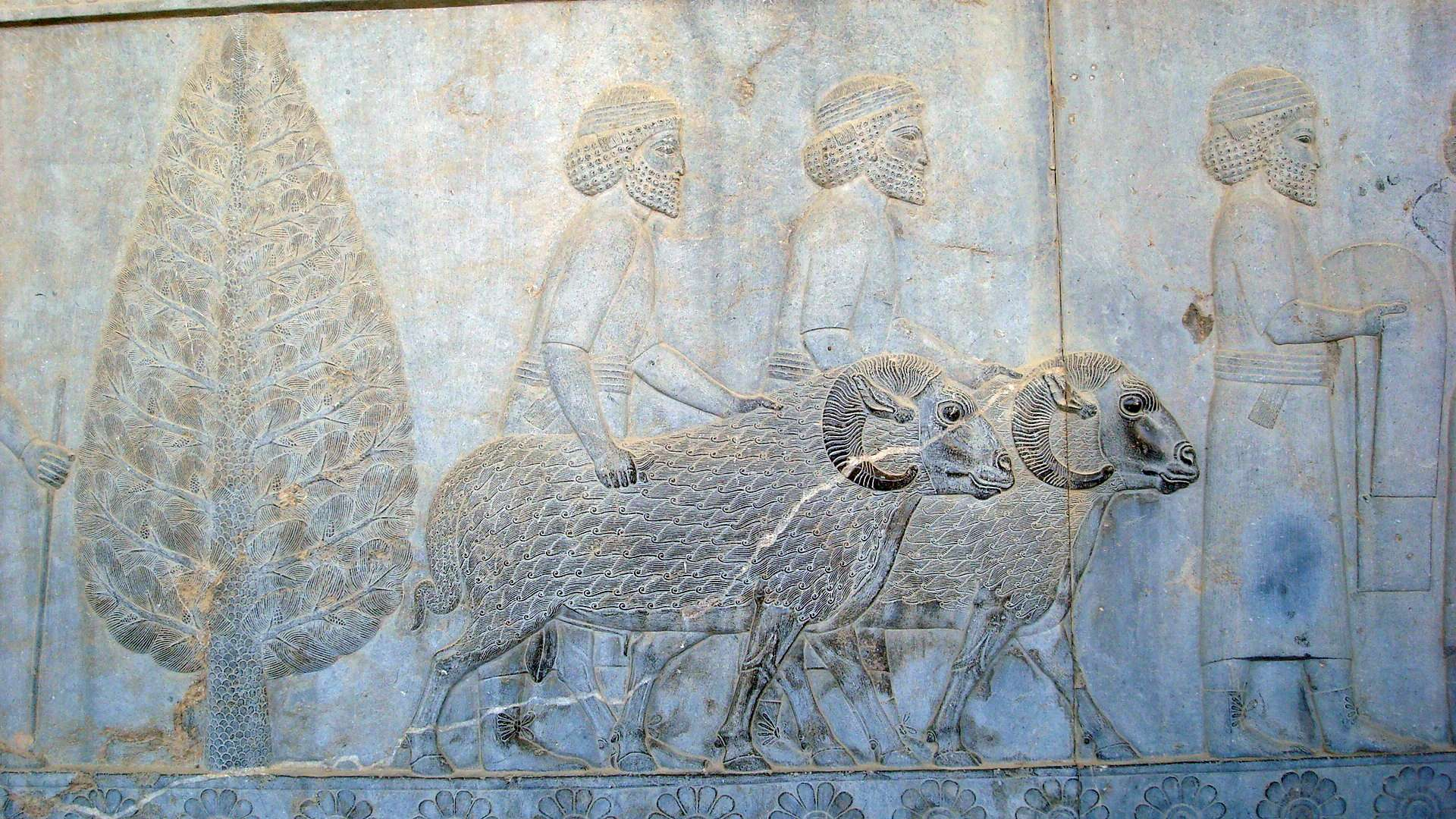 persepolis